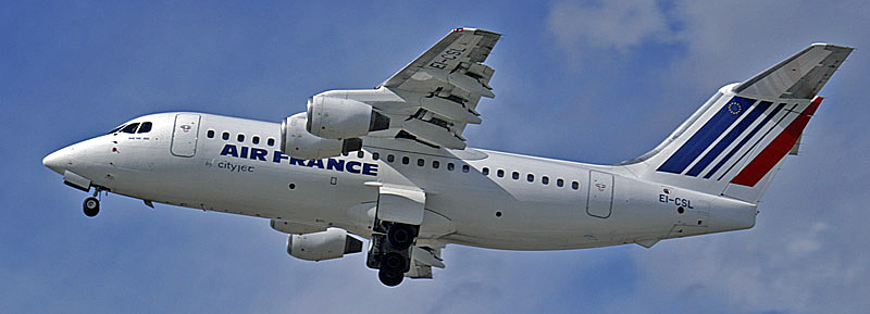 Cityjet BAe 146-200 EI-CSL operating for Air France